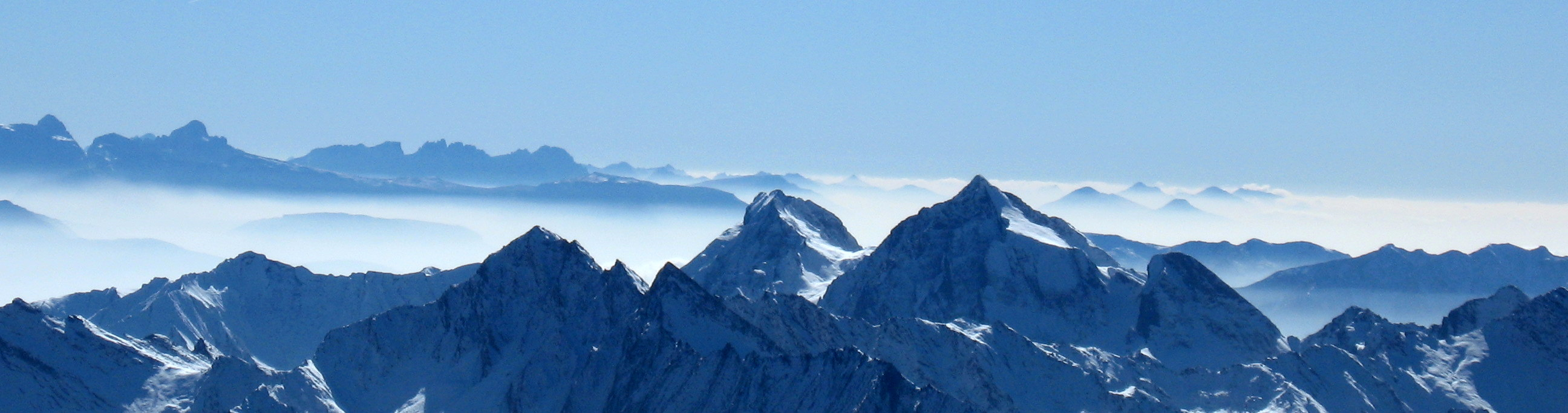 view over the valleys with the clouds - Zillertaler Alpen (Tuxer Hauptkamm with Olperer), in the background the Dolomites (Latemar)